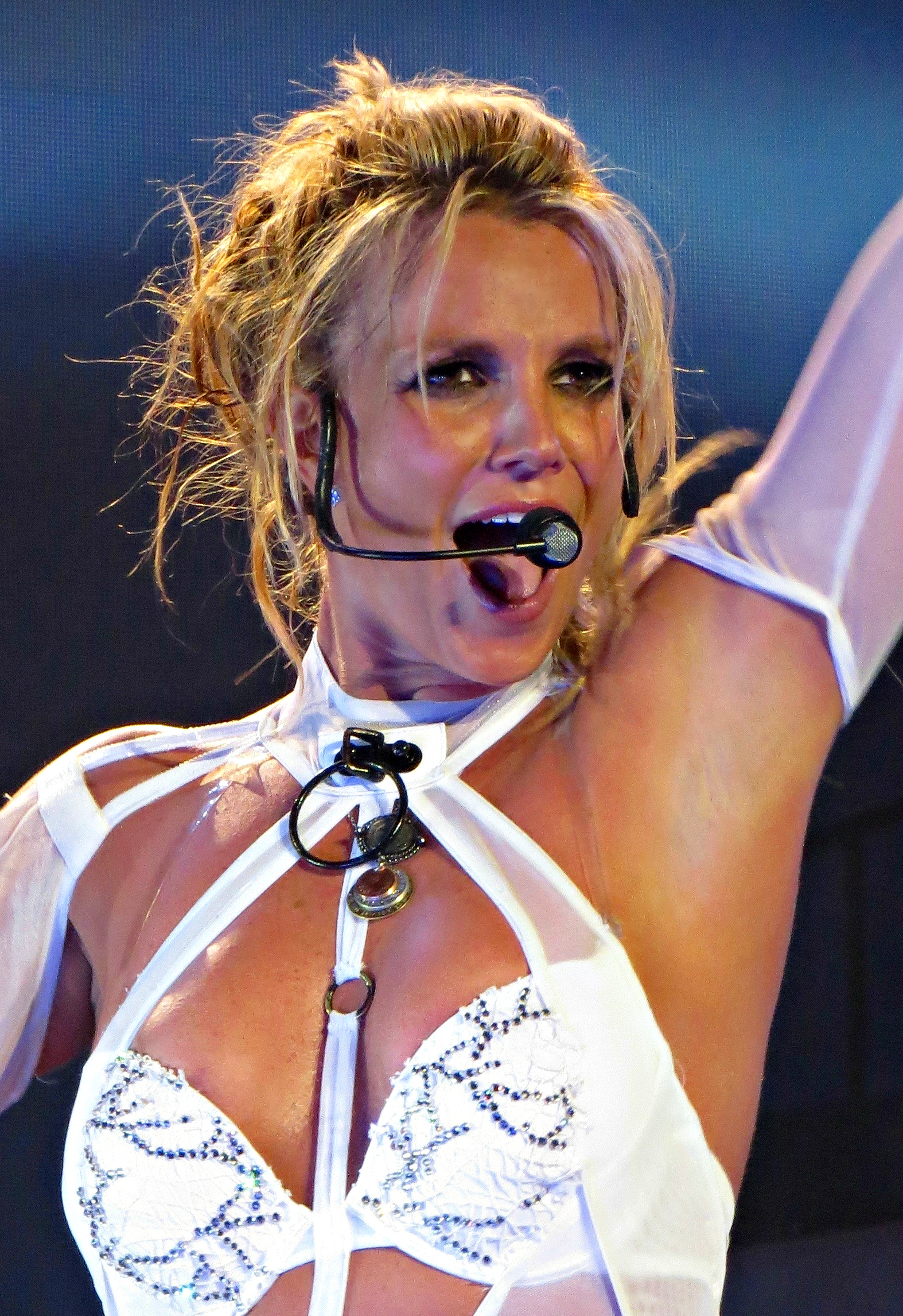 Britney Spears 7